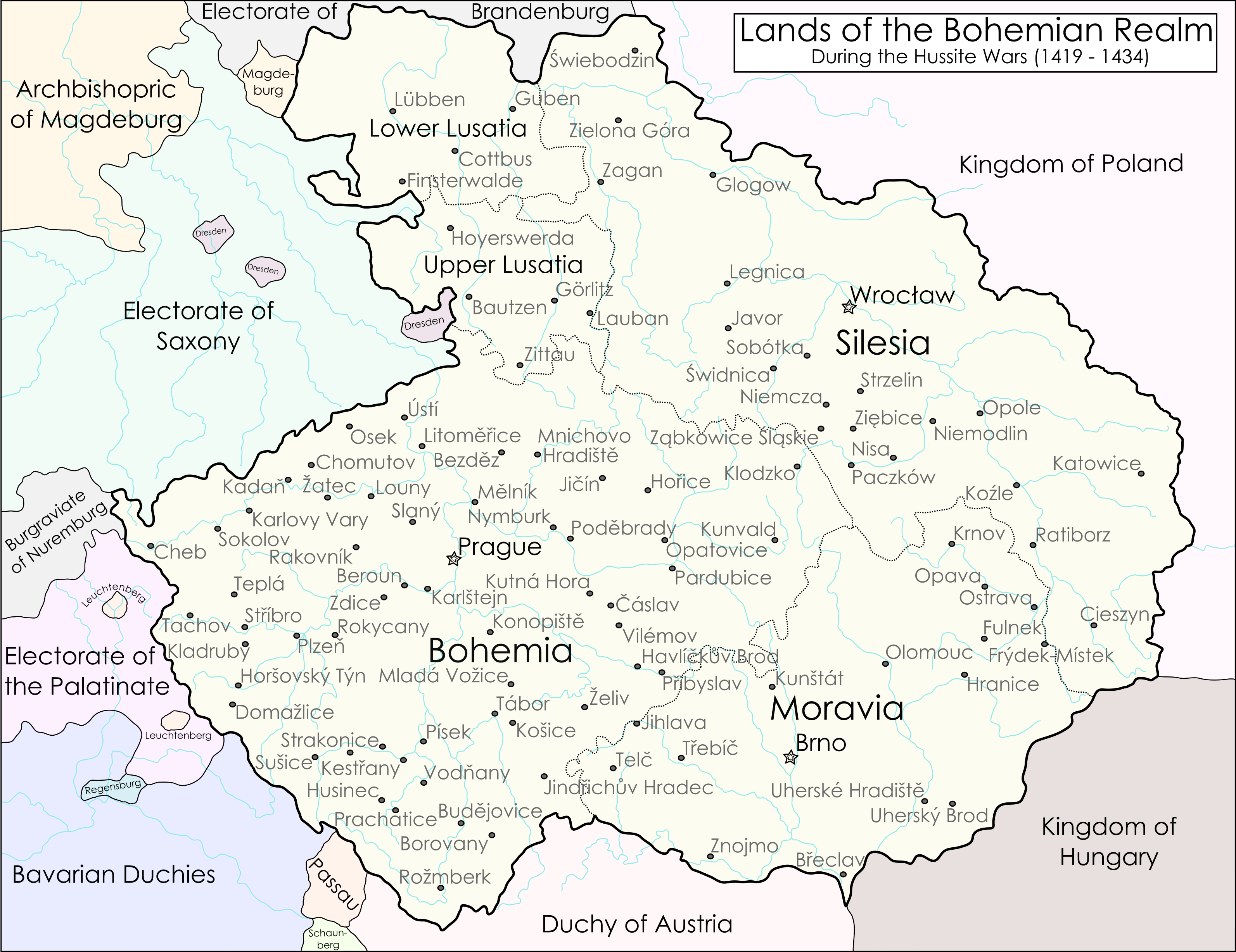 A map of the lands of the Bohemian crown during the Hussite wars with many of the major towns and cities labelled